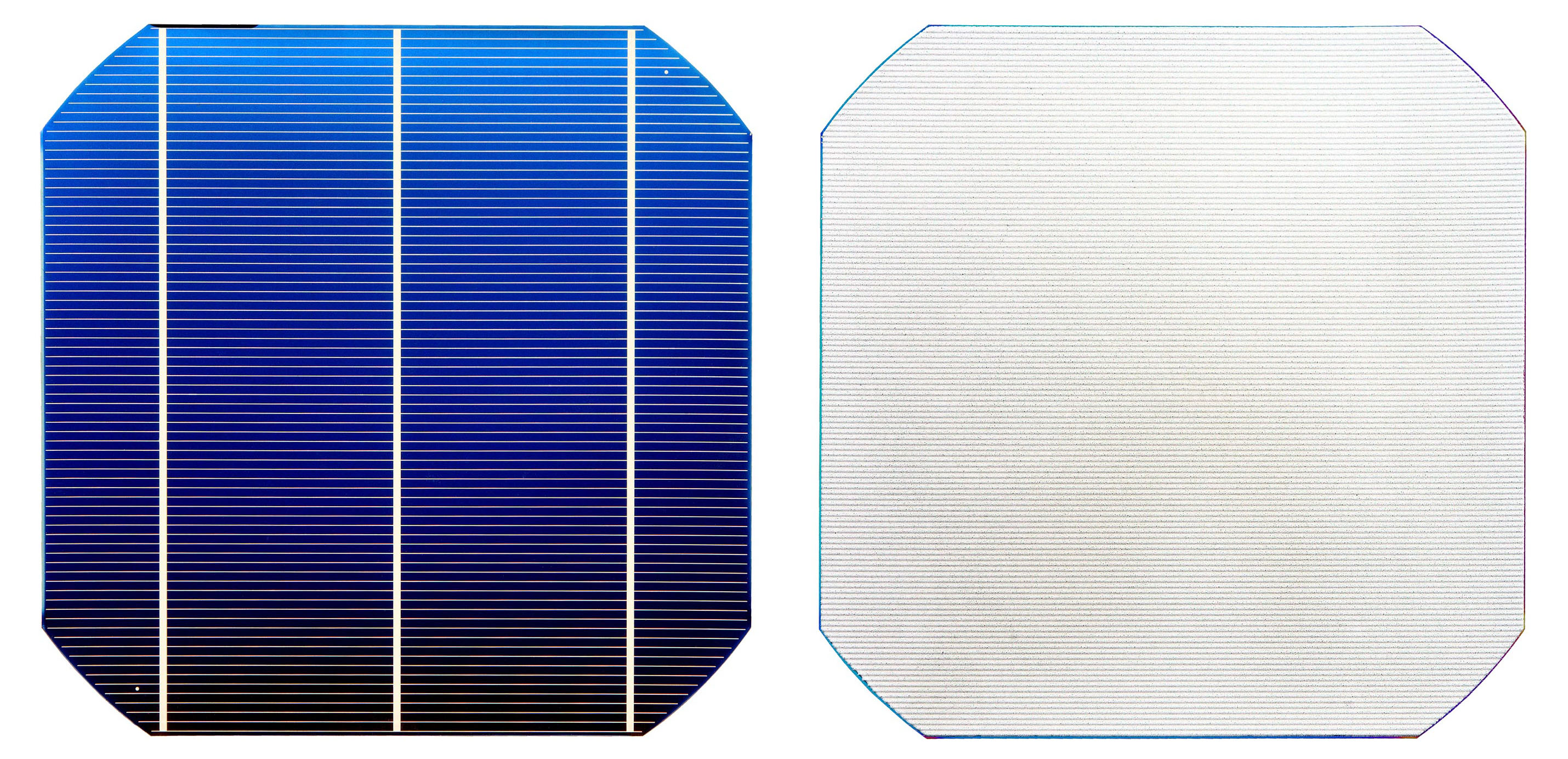 Modern crystalline silicon solar cell. The PERC design (passivated emitter and rear cell) has finger-shaped contacts at the rear side, visible as lines (right image). Cell efficiencies presently exceed 20%. Fabricated at the Institute for Solar Energy Research Hamelin (ISFH), Germany.